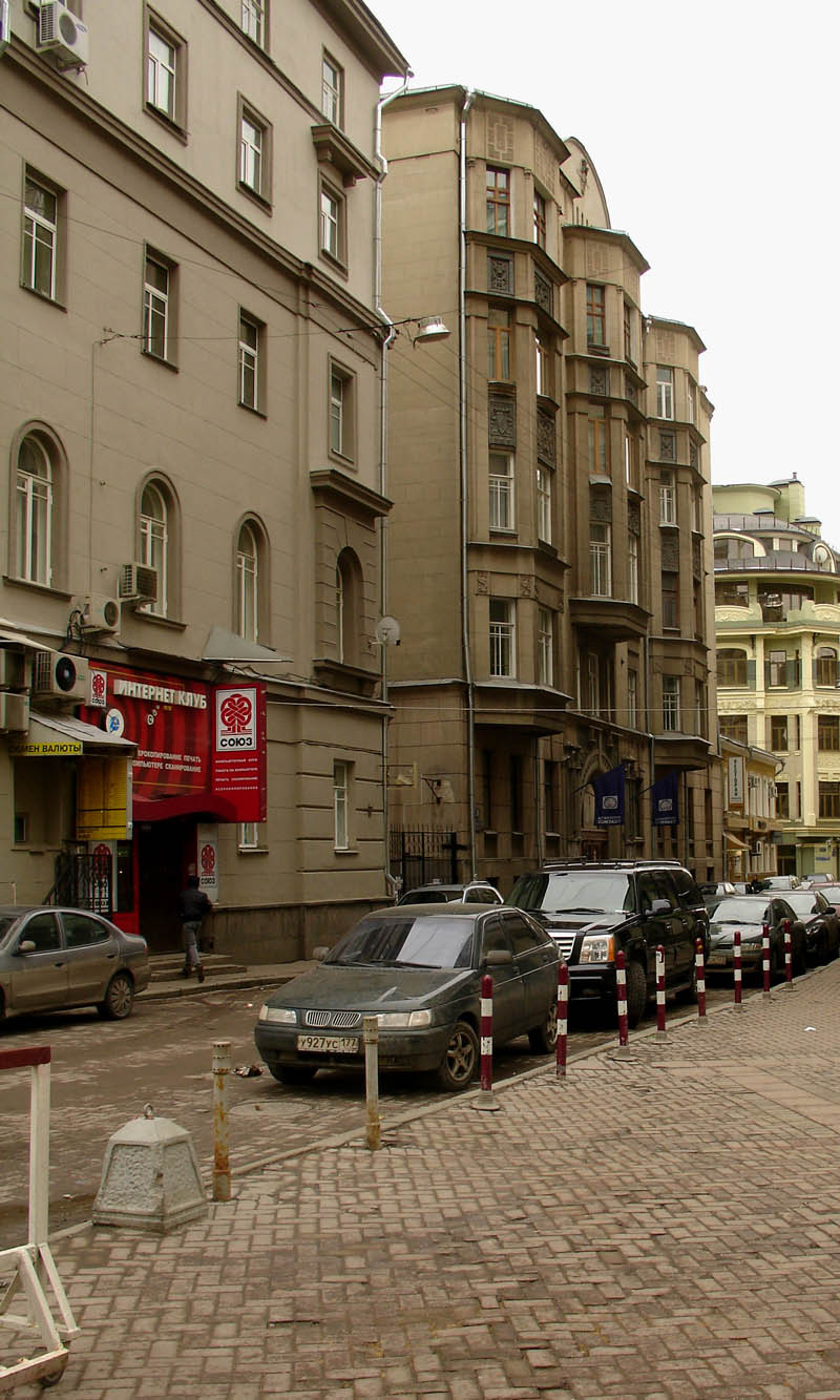 Arbat Street, Moscow